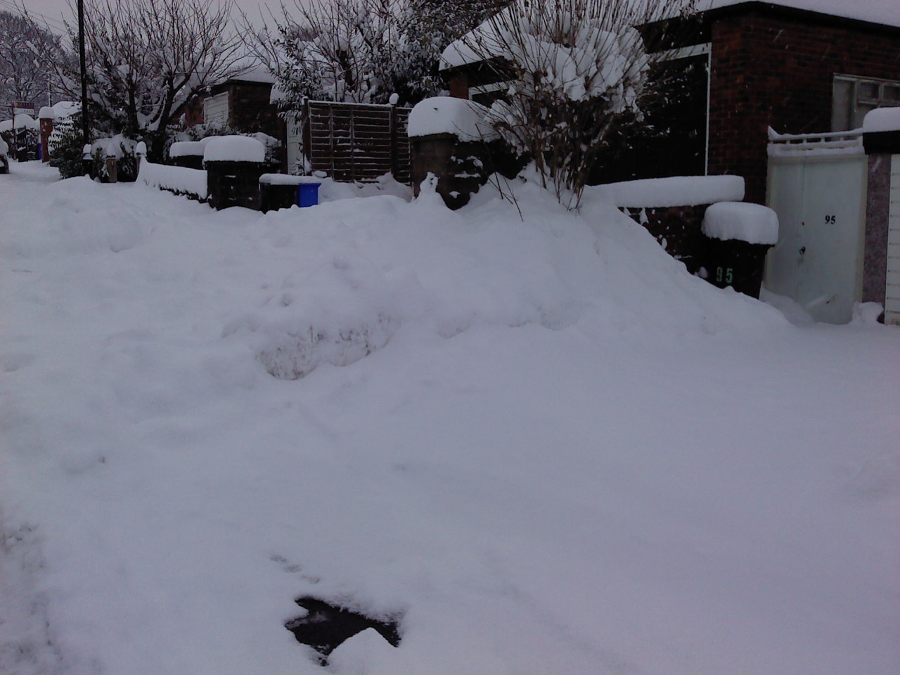 Heavy Snow that had fallen on December 1st 2010 in the Norfolk Park area of Sheffield.